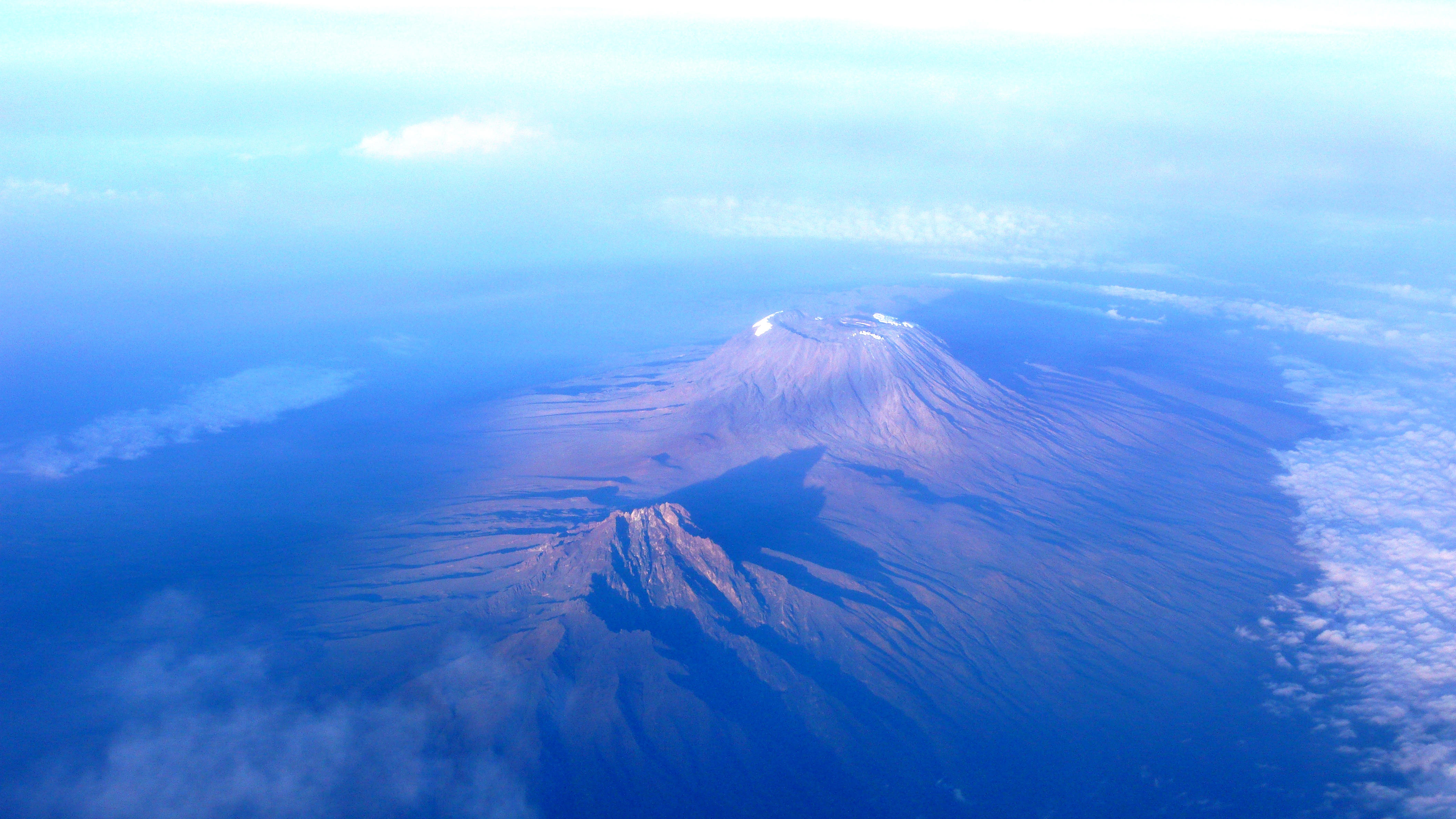 Kilimanjaro by plane - Tanzania